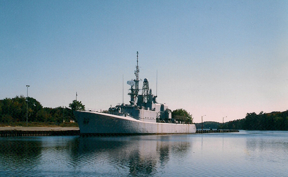 The Royal Canadian Navy St. Laurent-class destroyer HMCS Fraser (DDH 233) tied up at Bridgewater, Nova Scotia (Canada), in October 1999.